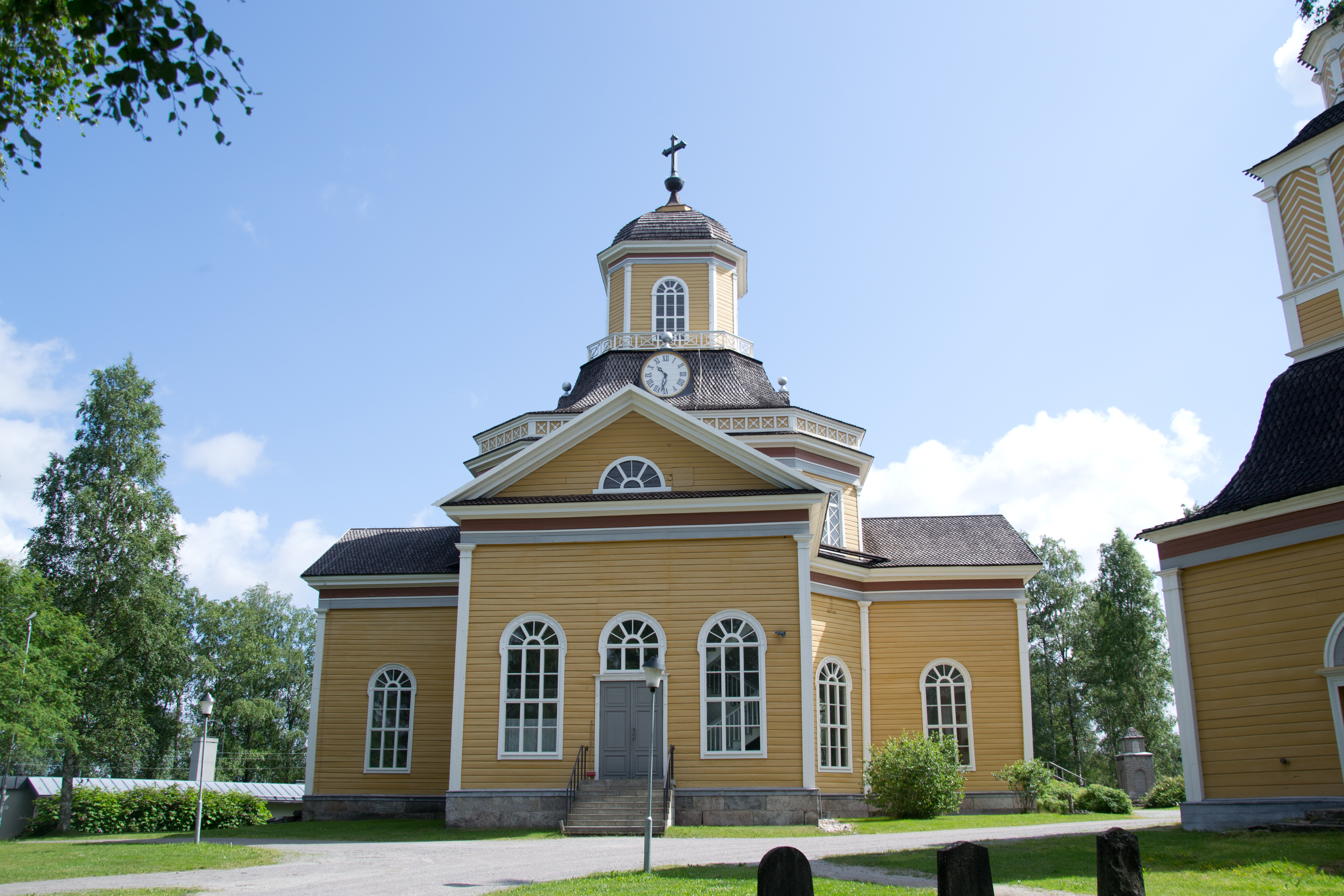 Kaustinen Church in Kaustinen, Finland.